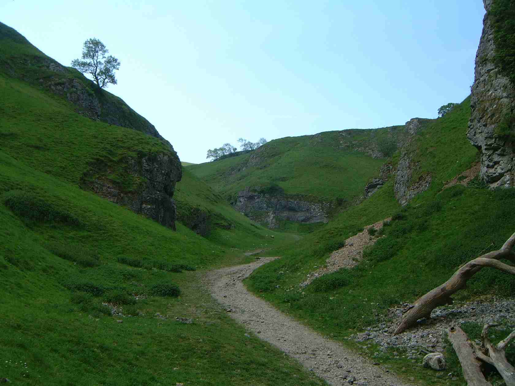 The northern part of Cave Dale near Castleton. Personal photograph taken by Mick Knapton on 7th June 2006